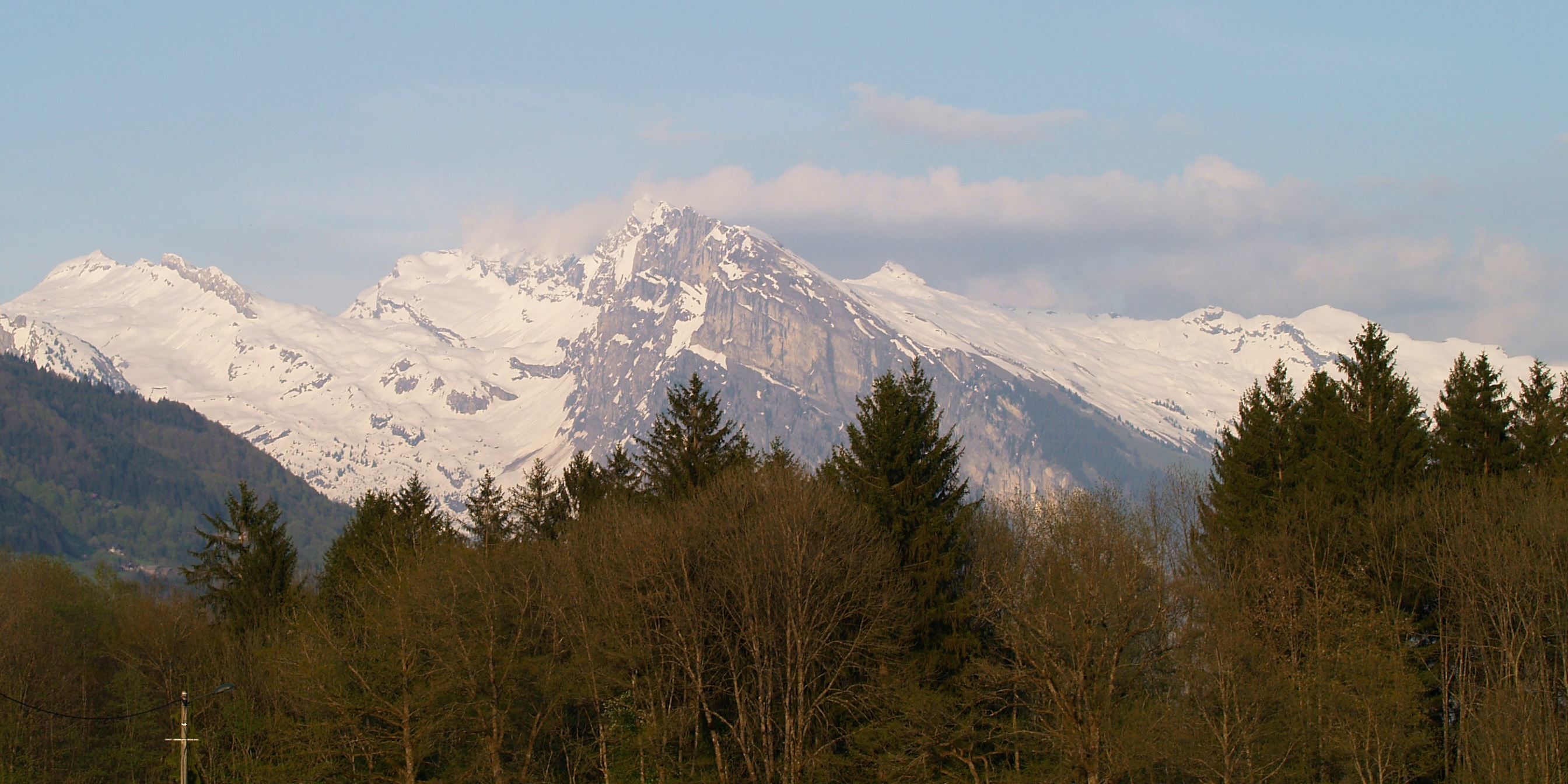 Massif du Giffre (Haute Savoie), viewed from the Avenue des Thezieres in front of the municipal campsite at Taninges.